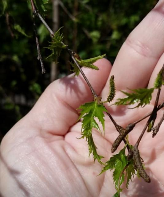 Proof that 'dalecarlica' produces male catkins as well